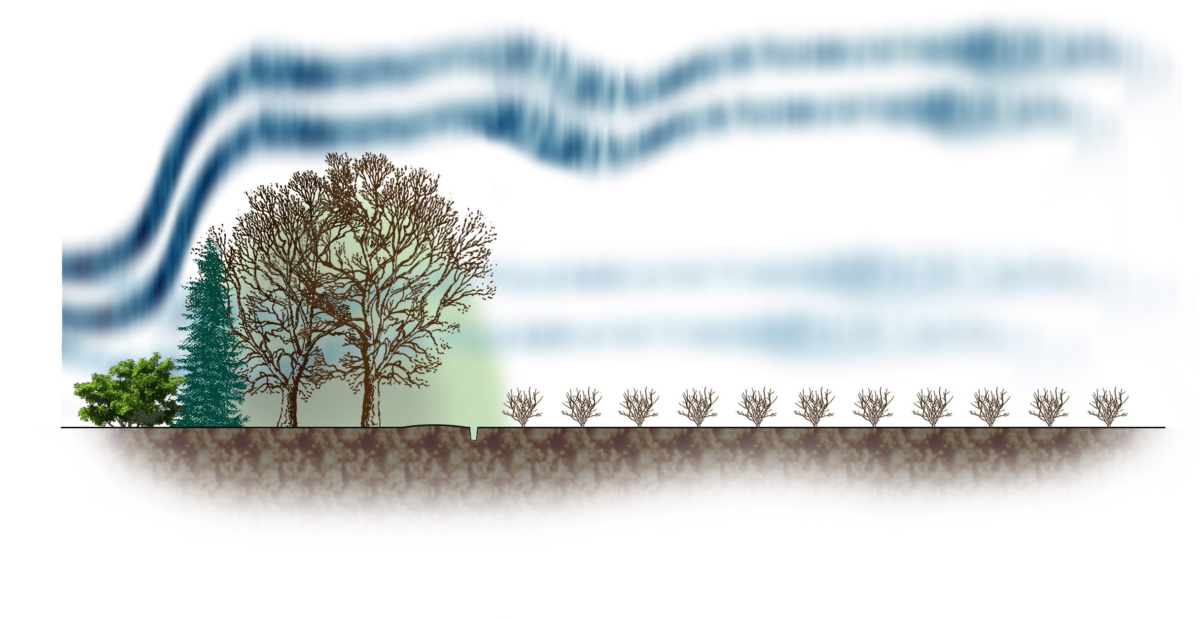 Windbreak scheme